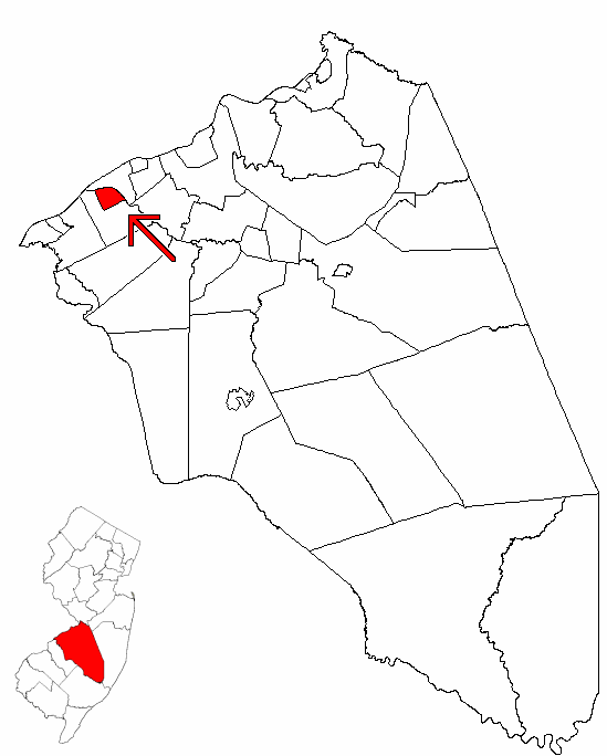 Map of Burlington County highlighting Riverside Township